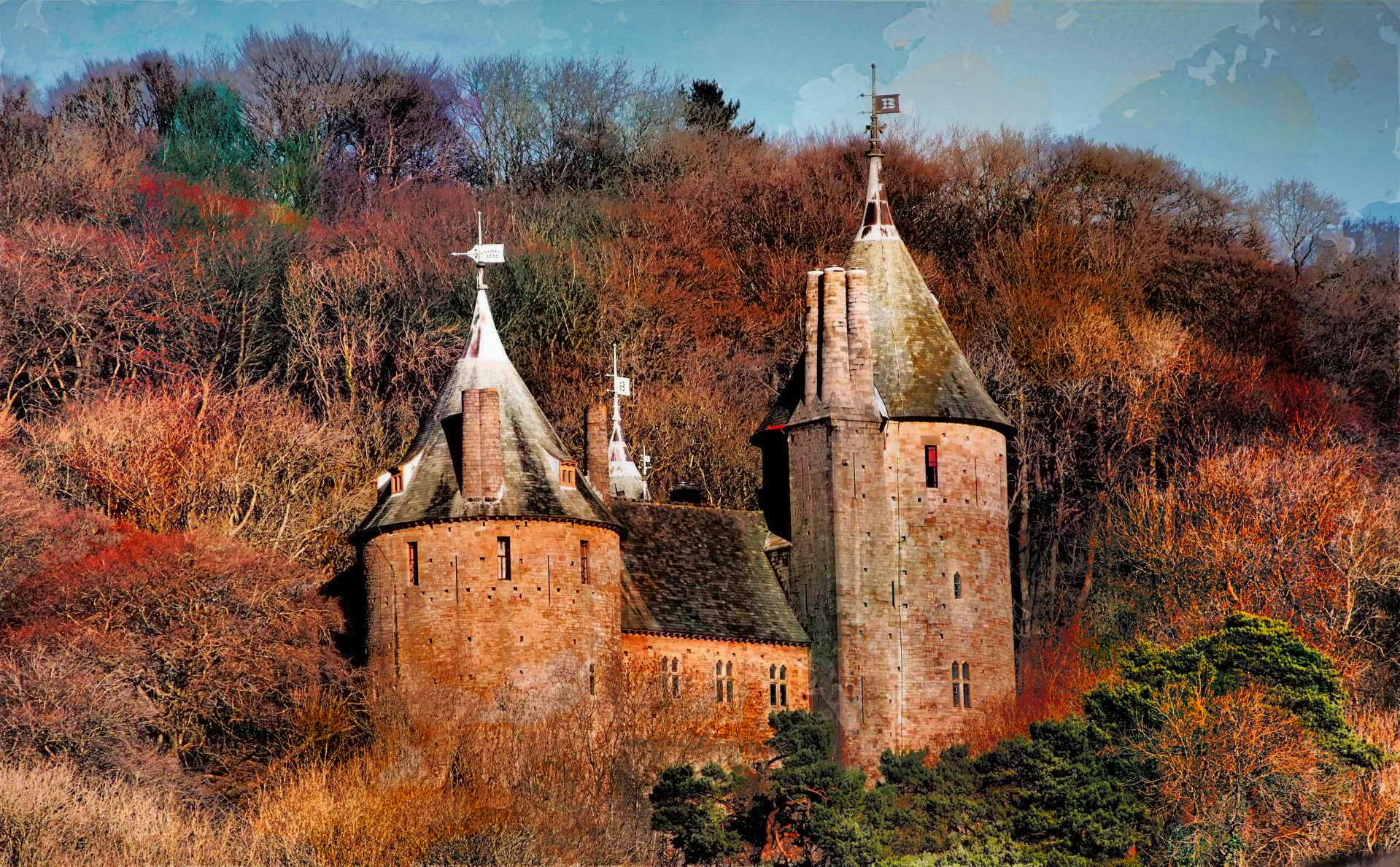 Castle Coch, Tongwynlais, Nr Cardiff